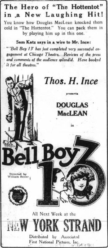 Advertisement for the American comedy film Bell Boy 13 (1923), on page 28 of the March 22, 1923 Variety.